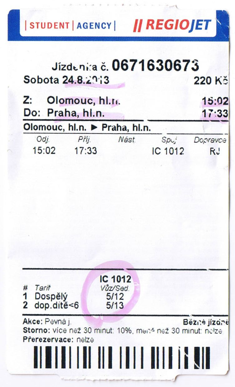 Train ticket of RegioJet.